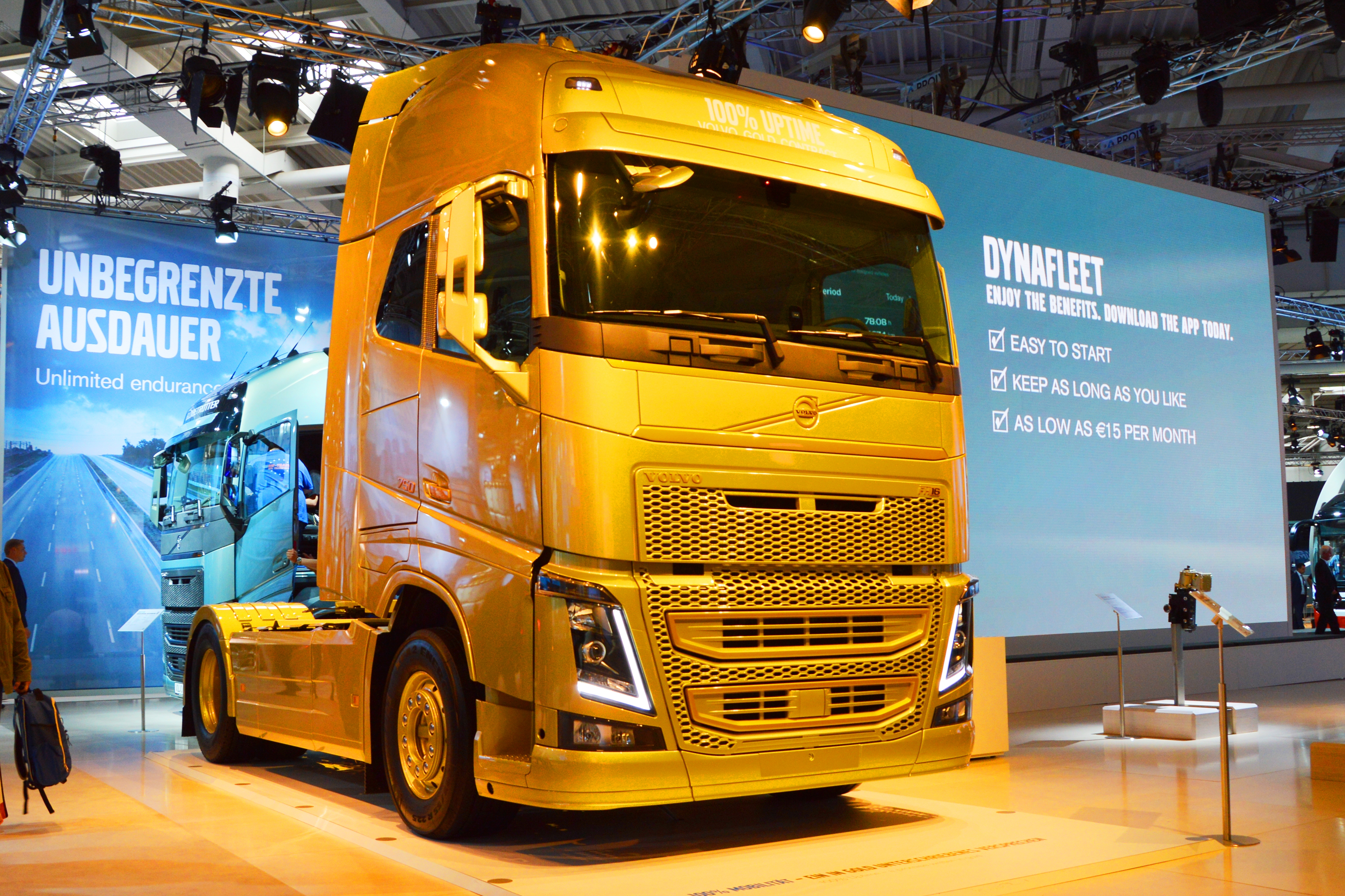 Volvo FH 16 750. Paint in gold as advertising for a service contract. Photo taken at exhibition IAA 2014 in Hanover, Germany.